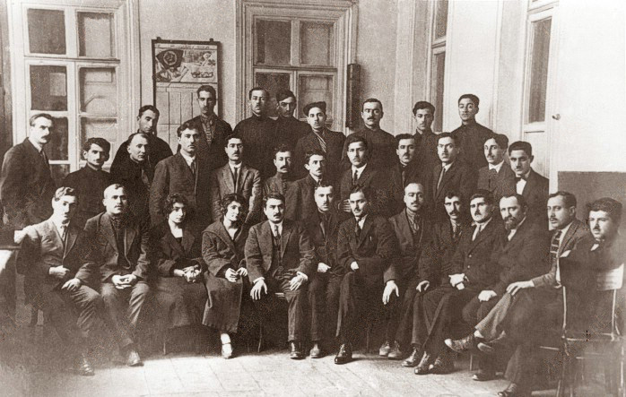 Ahmad Javad with the teachers of a tekhnukum named afrter Narimanov